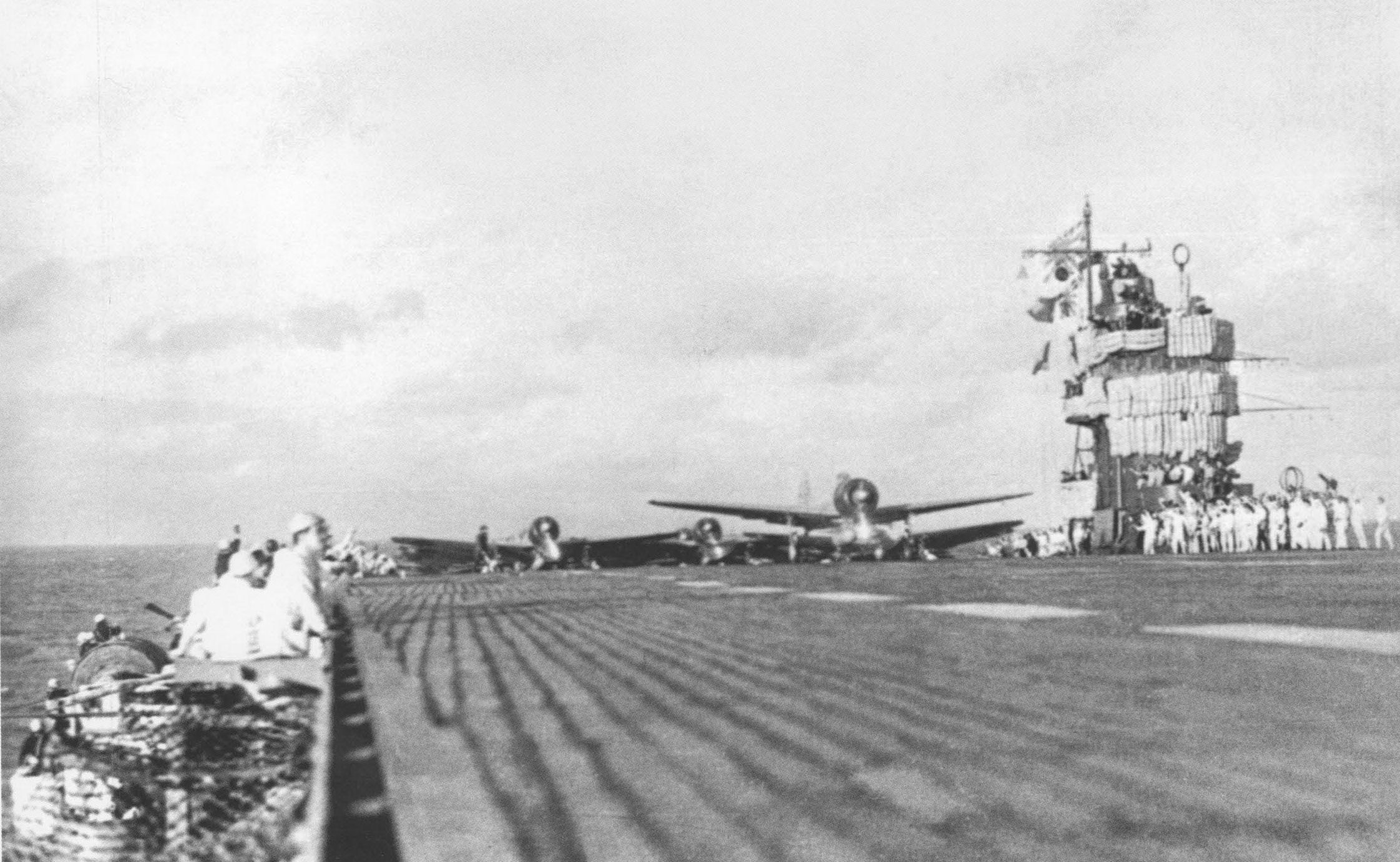 The second wave of attack aircraft launches from the Imperial Japanese Navy aircraft carrier Akagi against Pearl Harbor, Hawaii.